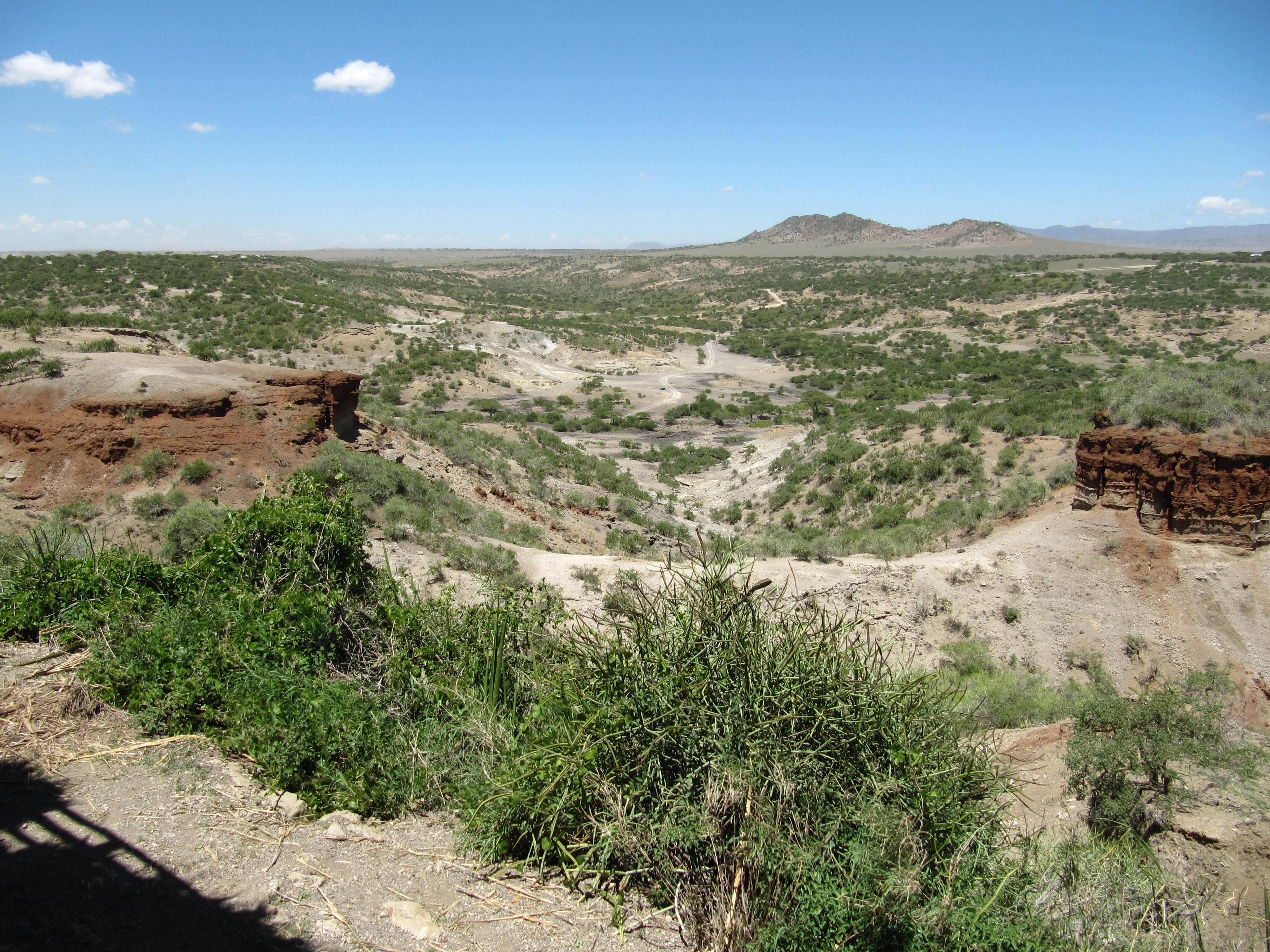 View on Oldupai Gorge